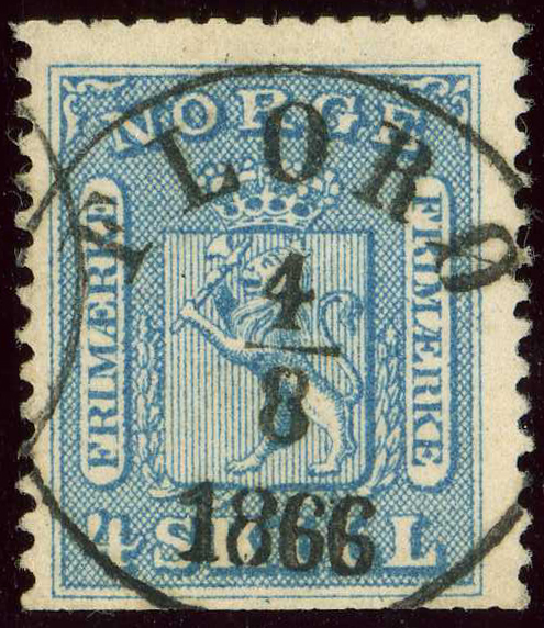 4 skilling Norway issue 1863, Antiqua cancelled at Florö, Michel N°8.